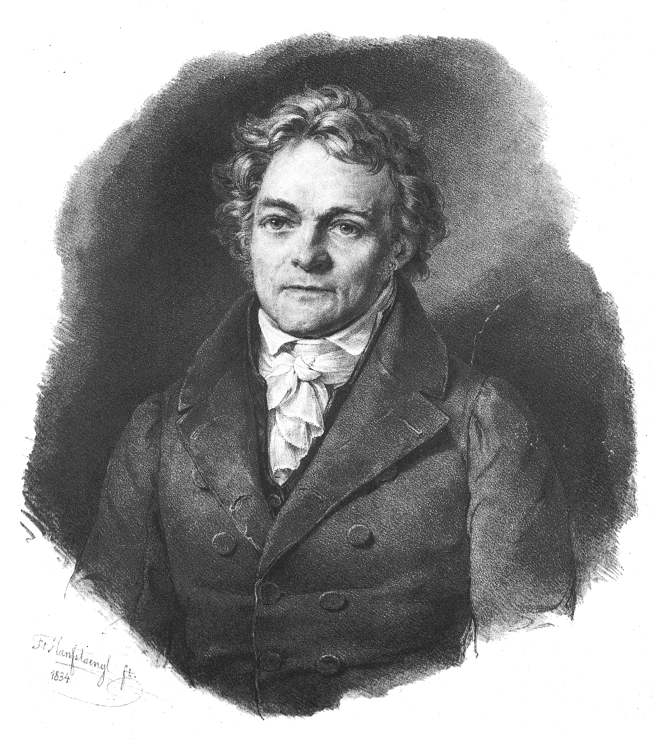 Alois Senefelder (1771-1834), Lithography